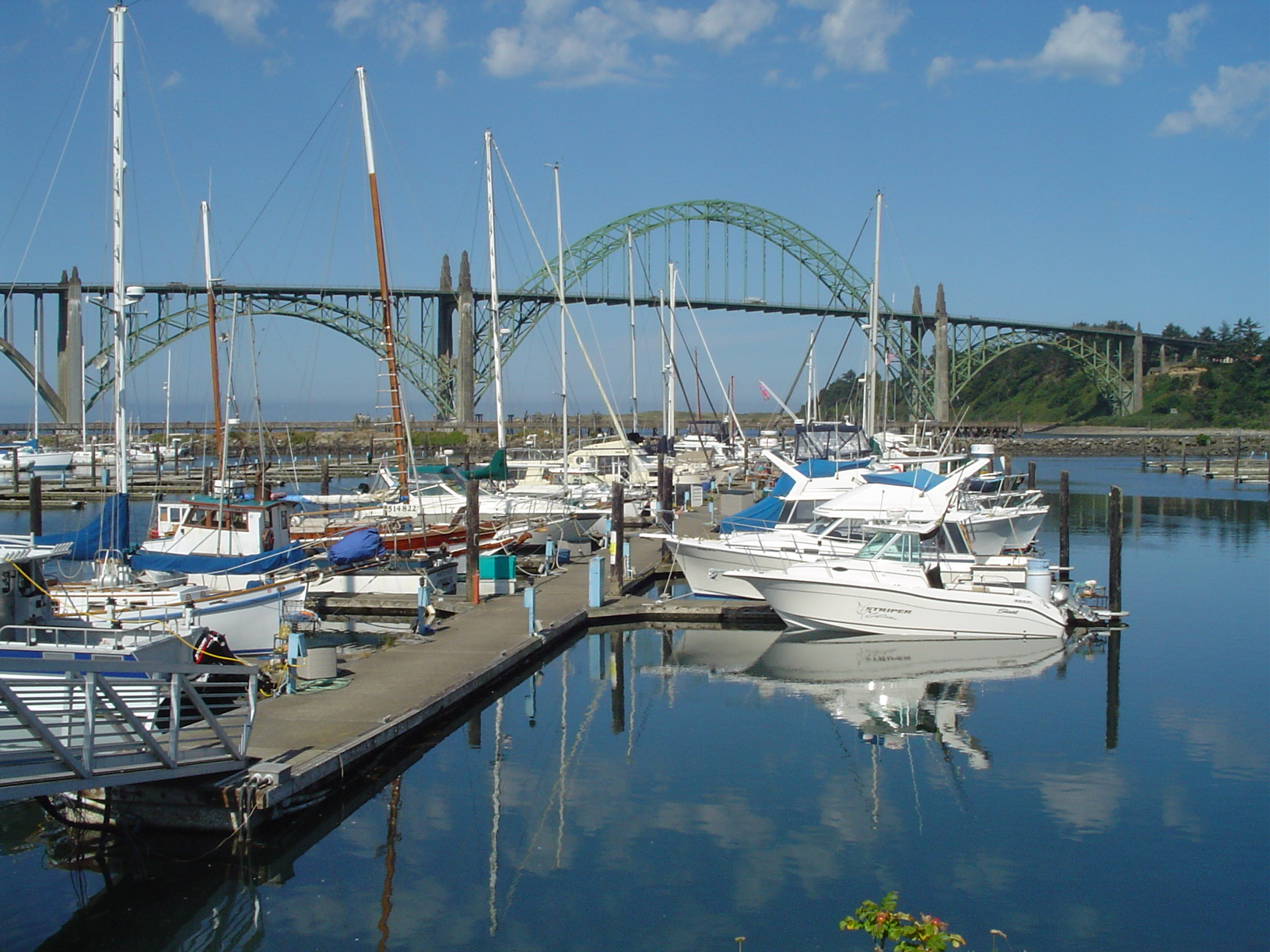 Newport, Oregon - view at the bridge from the port